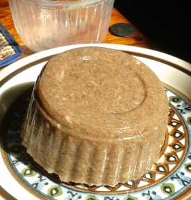 A tub of potted heid, a Scottish cold meat dish, turned out on a plate.